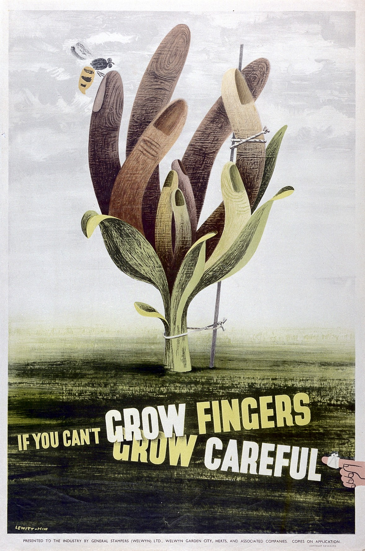 Health and safety poster created for industry by the General Stampers of Welwyn, which shows a plant with fingers growing out of the stem and warns: "If you can't grow fingers grow careful." A hand with a bandage on points to the words of warning for emphasis. Colour lithograph by Lewitt-Him (a partnership between Jan Le Witt and George Him). Iconographic Collections Keywords: Health and Safety; Lewitt-Him